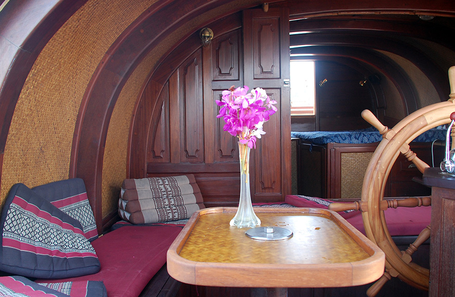 Naga Pelangi view from cockpit into aft cabin-2